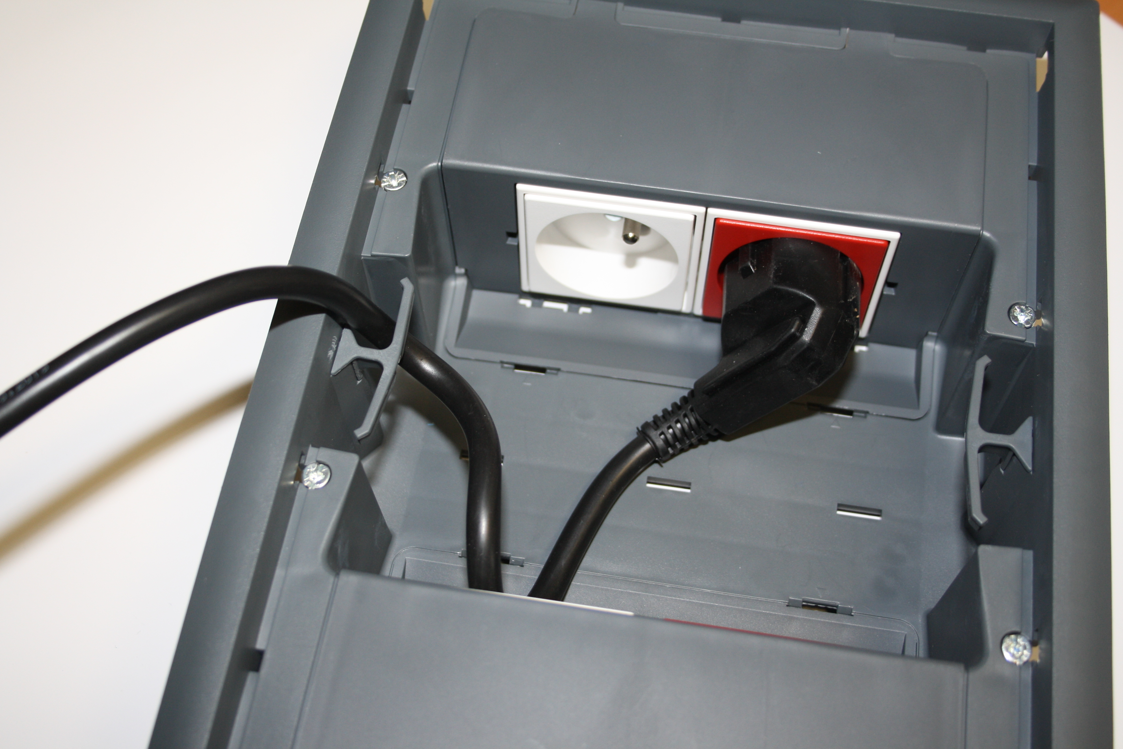 Underfloor box with plug